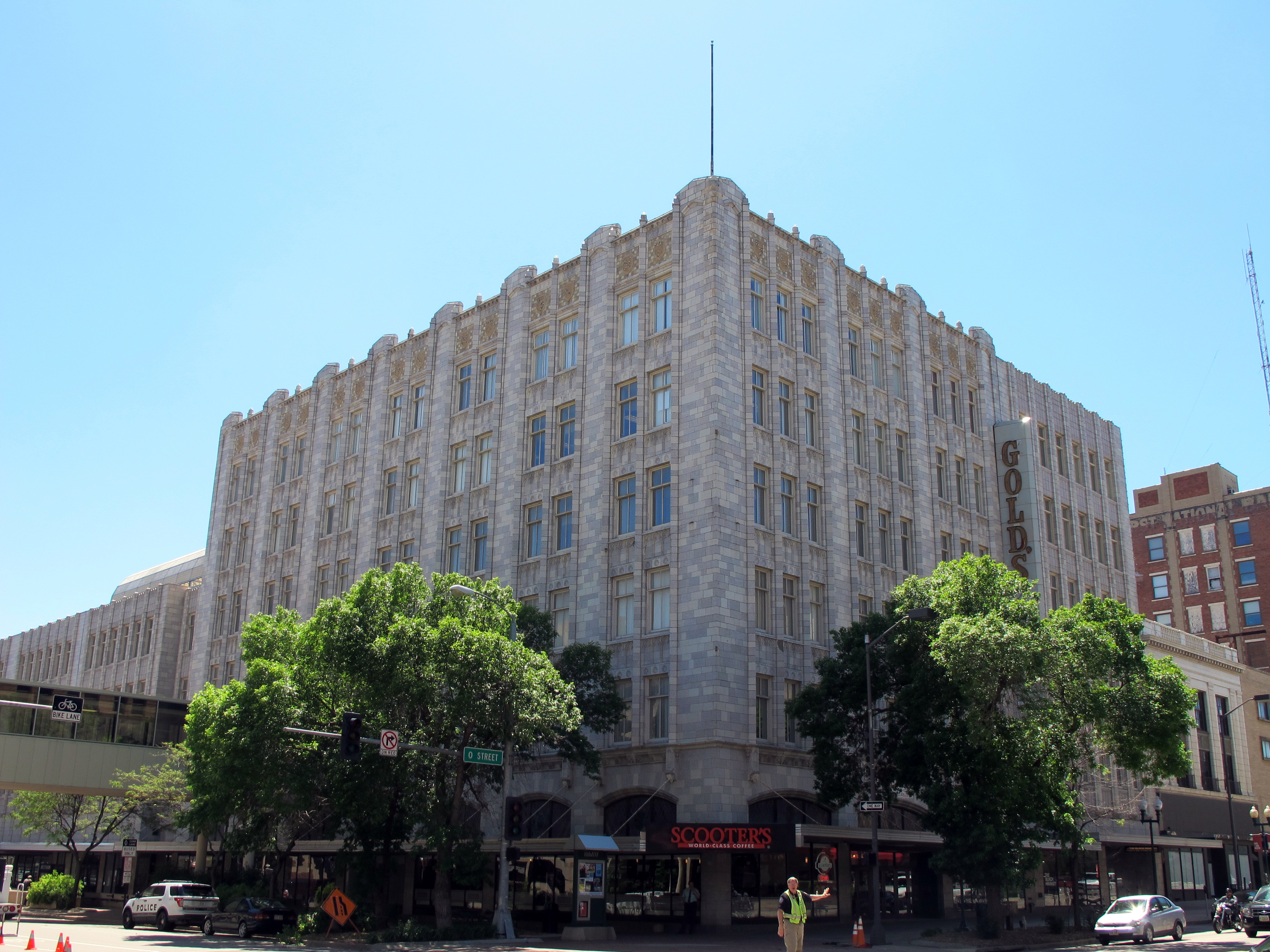 Photo of the Gold's Building, 1033 "O" Street, Lincoln, Nebraska. Photo is taken from the northeast corner of 11th & "O" Streets, looking southwest.